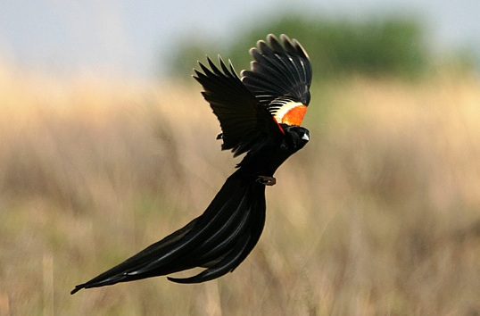 Long-tailed Widowbird (Euplectes progne) Kruger National Park